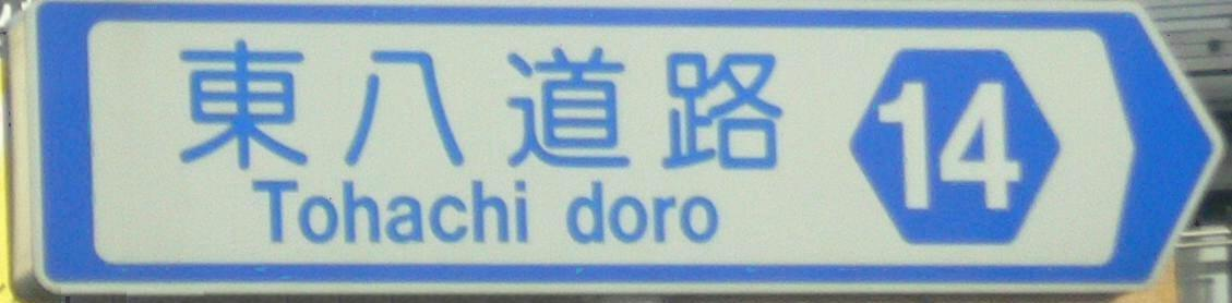 Tokyo metro road no.14 (東八道路), Fuchu C, Tokyo M.